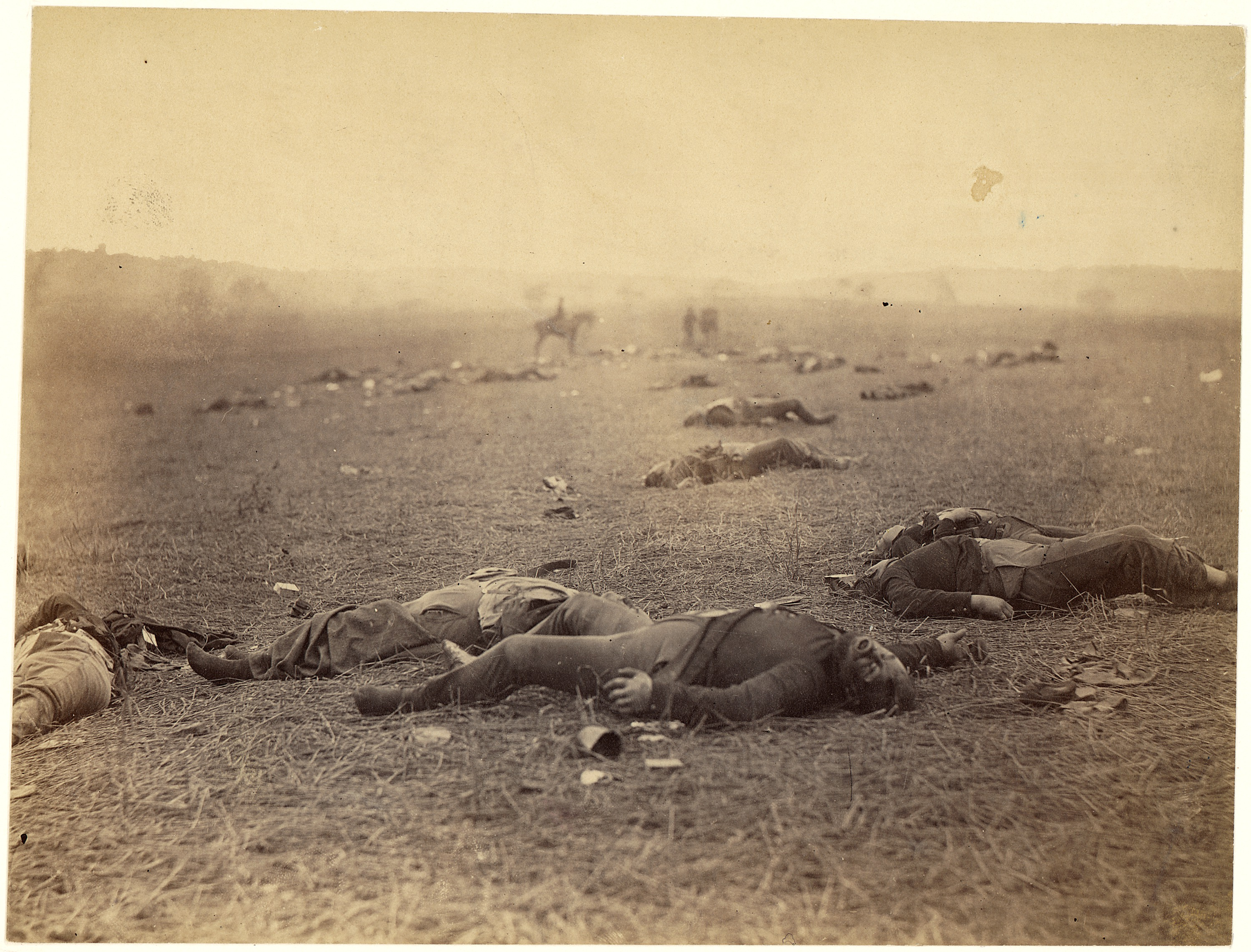 General notes: Use War and Conflict Number 253 when ordering a reproduction or requesting information about this image.